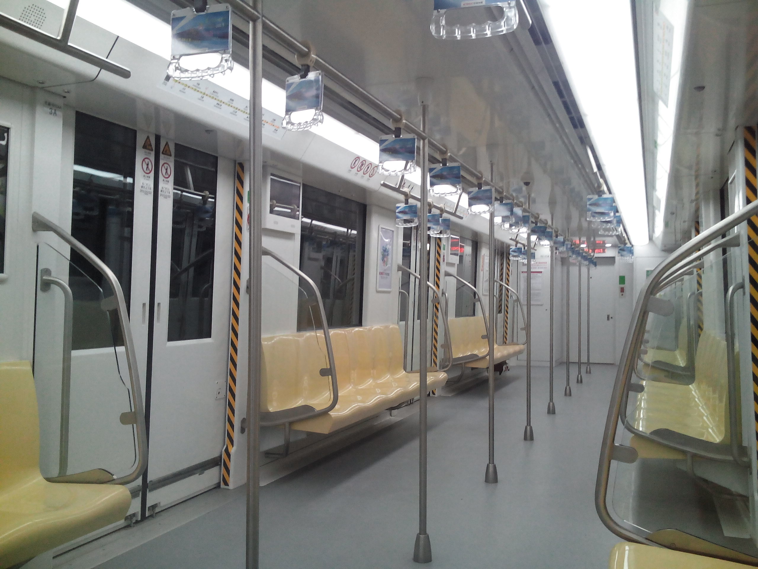 201504 Interior of Nanjing Metro L10 vehicle